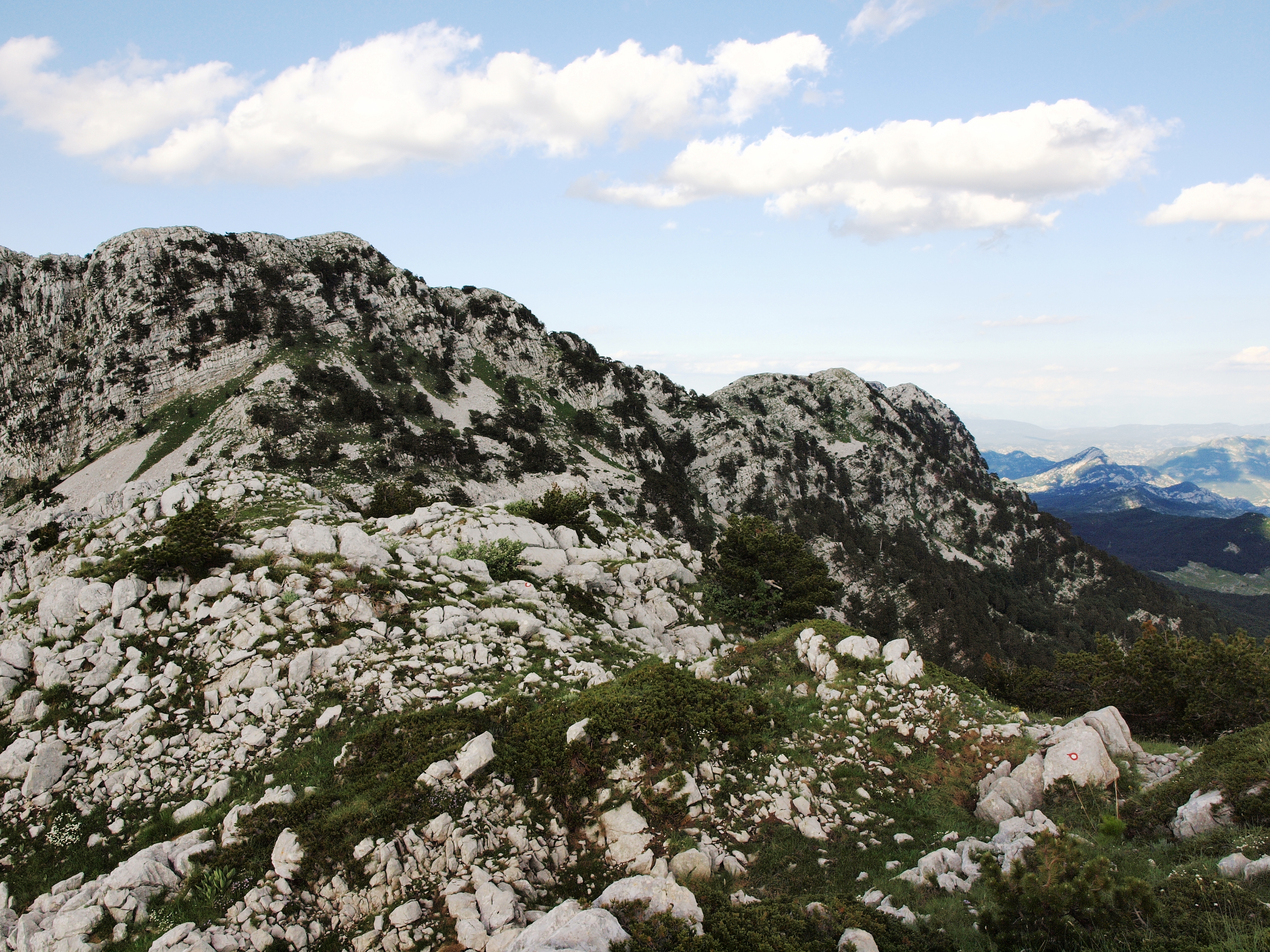 Reovacka greda ridge, Orjen Montenegro